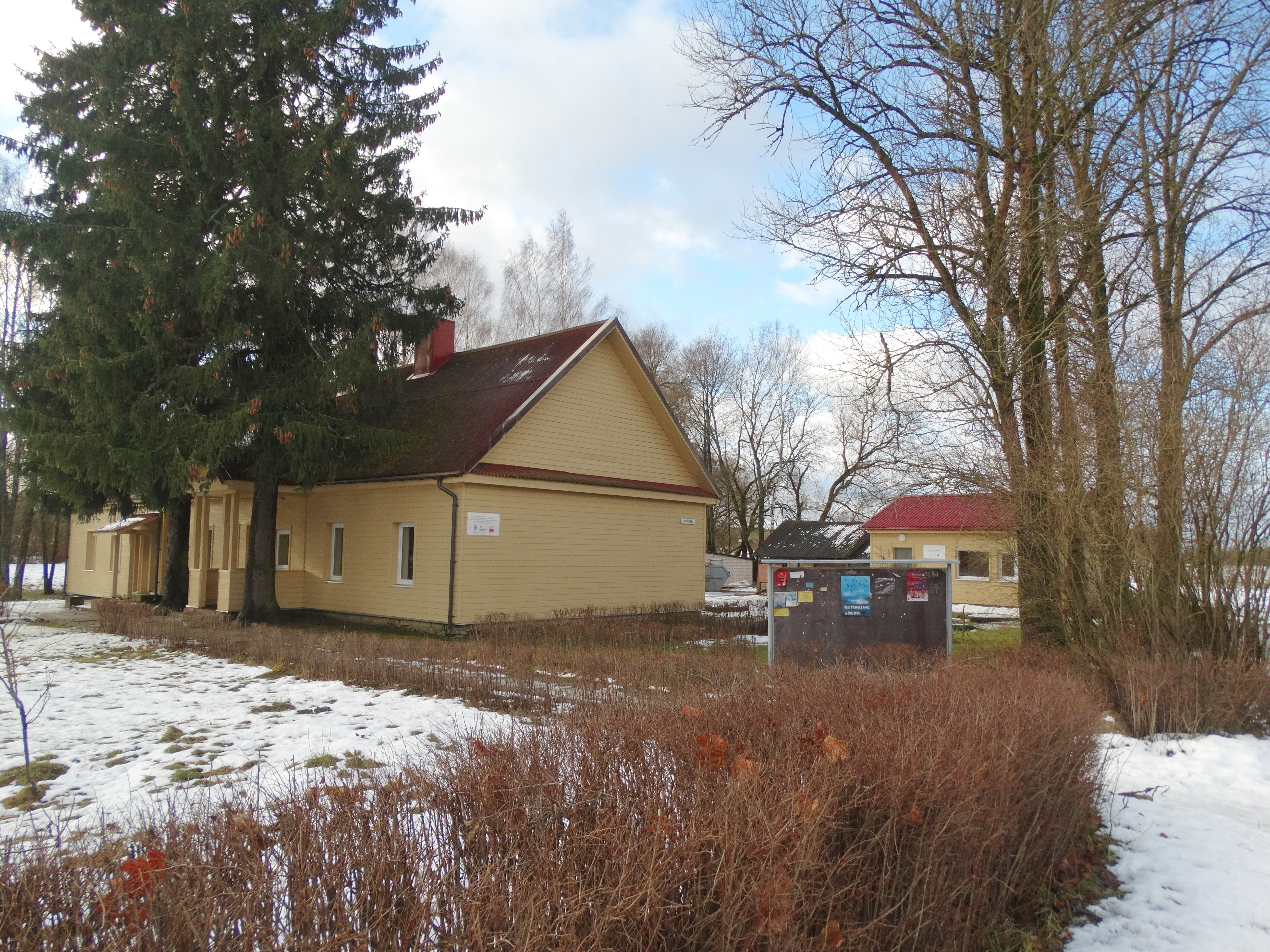 School, Platiniškės, Vilnius, Lithuania